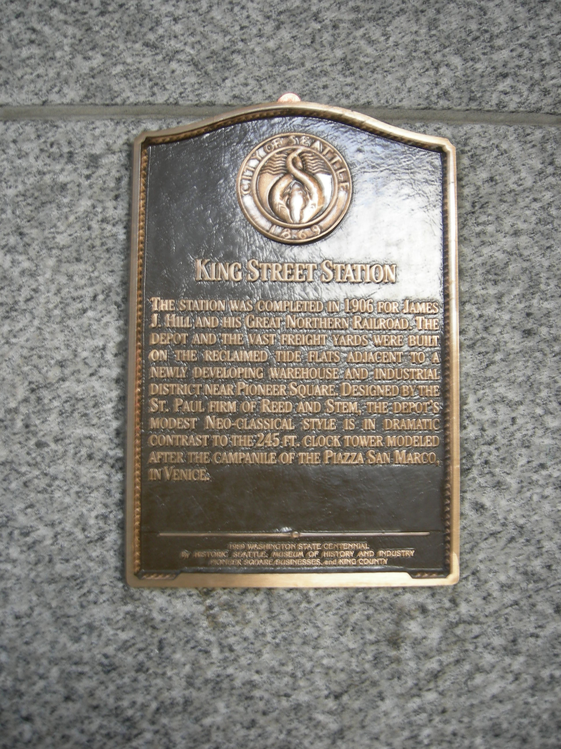 Plaque, King Street Station, Seattle, Washington. The building is on the National Register of Historic Places, ID #73001877. Under a Seattle City seal, the text says: King Street Station The station was completed in 1906 for James J. Hill and his Great Northern Railroad. The deopt and the vast freight yards were built on the reclaimed tide flats adjacent to a newly developing warehouse and industrial district near Pioneer Square. Designed by the St. Paul firm of Reed and Stem, the depot's modest neo-classical style is in dramatic contrast to the 245 clock tower modeled after the campanile of the Piazza San Marco in Venice.